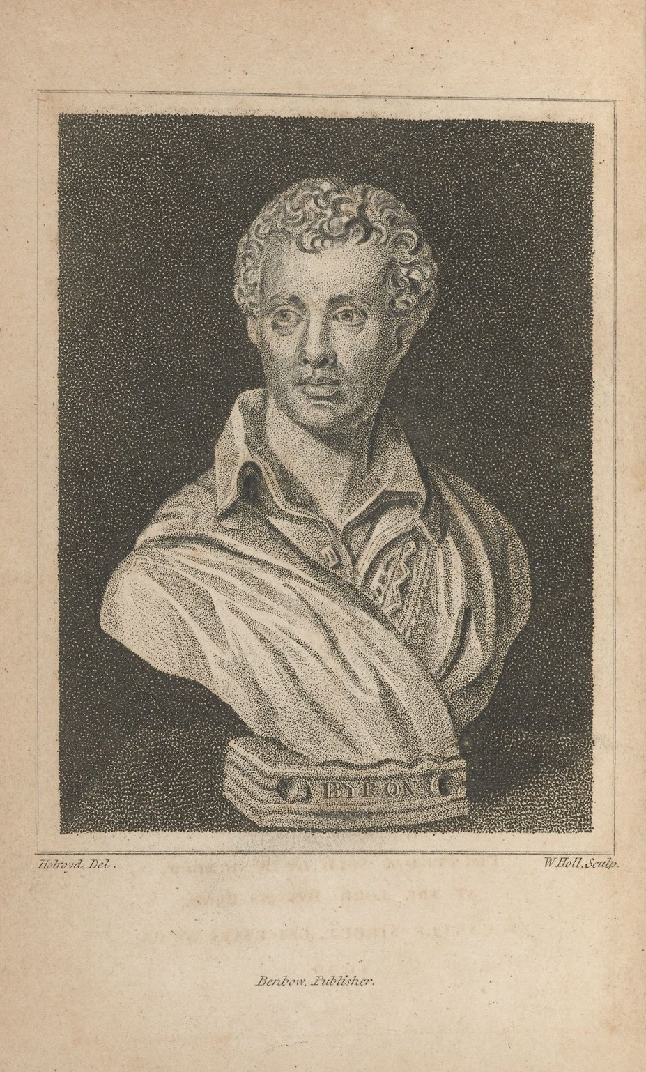 Frontispiece to Don Juan featuring an engraving of a bust of the author Lord Byron (Baron George Gordon Byron, 1788-1824). Don Juan: canto I to V, 1824, Benbow (publisher). *76-1010, Houghton Library, Harvard University